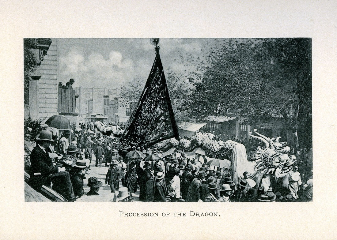 Chinese holding a dragon dance down the streets of San Francisco